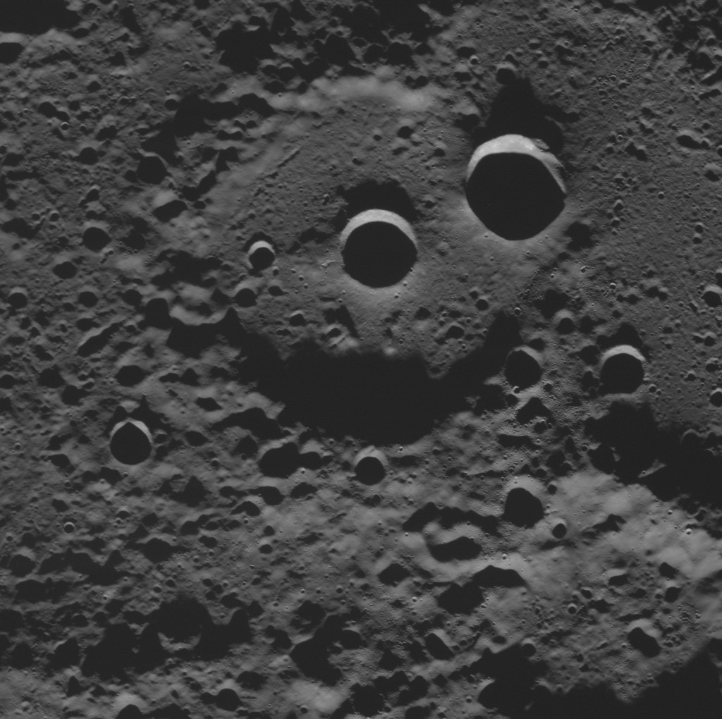 Bunin crater on Mercury. MESSENGER Wide Angle Camera image. North is at top. Width is approximately 78.4 km at bottom. Emission Angle: 10.8 Incidence Angle: 84.0 Latitude: 84.2 Longitude: 223.5 Phase Angle: 84.1